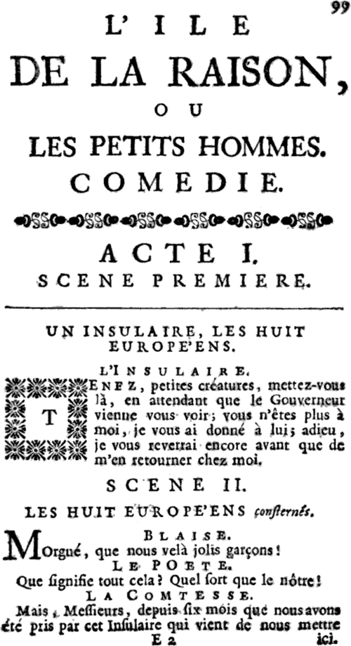 First page of The Isle of Reason (1721) by Pierre de Marivaux (1688-1763)